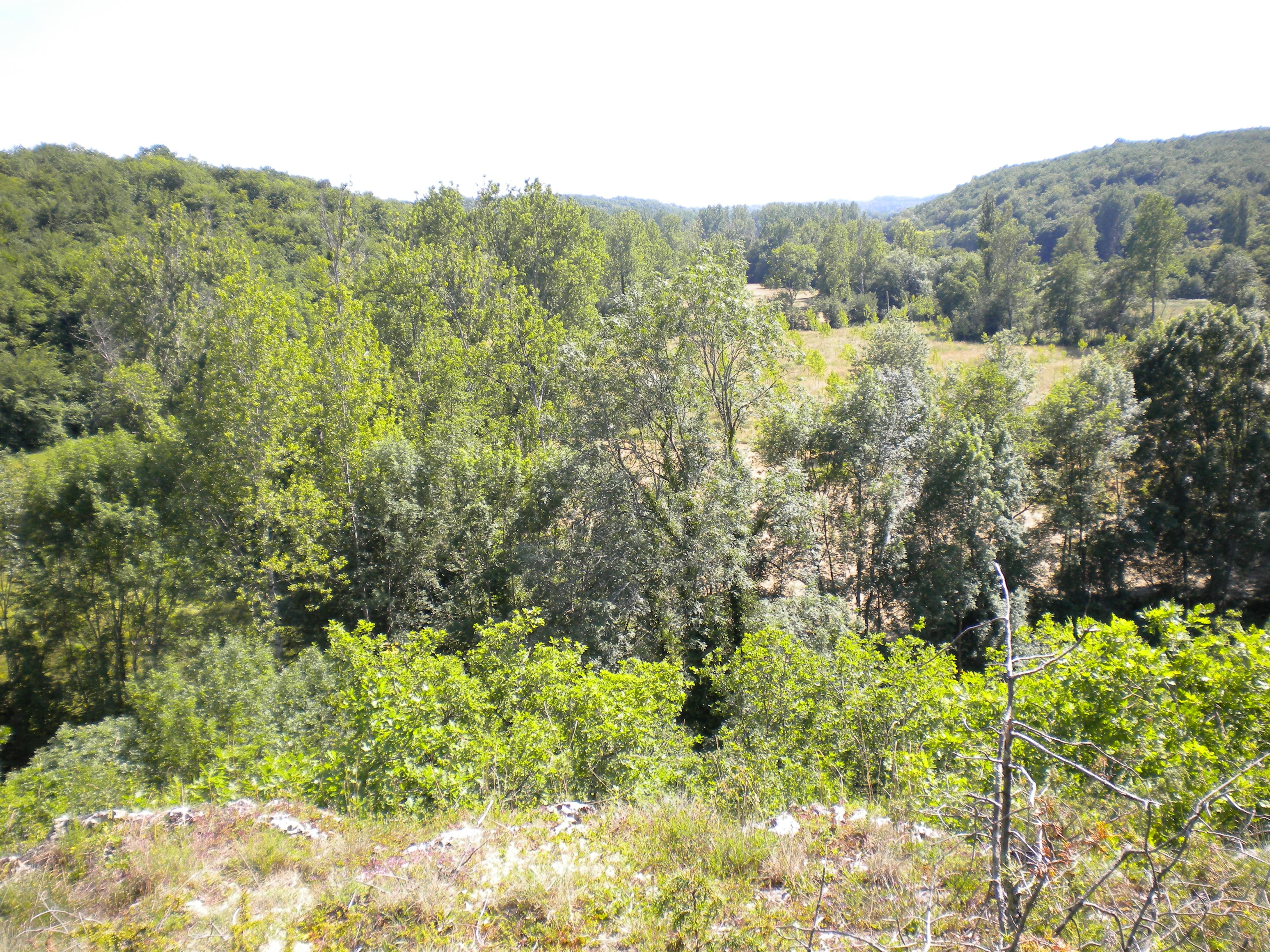 View from the iron age hillfort emplacement Roc Plat towards the SW into the Boulou valley. The hillfort was strategically positioned and surrounded by limestone cliffs dropping about 30 meters down to the valley floor. Commune of La Gonterie-Boulouneix, Dordogne, France.